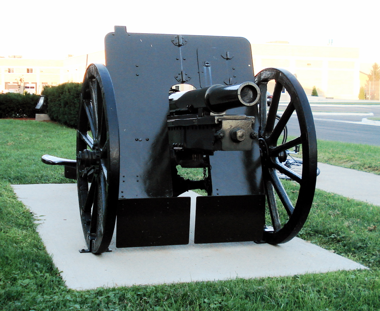 Japanese Type 41 75 mm Mountain Gun, displayed near the Royal Canadian Regiment Military Museum in London, Ontario. Photo taken on August 10, 2006. Source: Photo by me, User:Balcer.